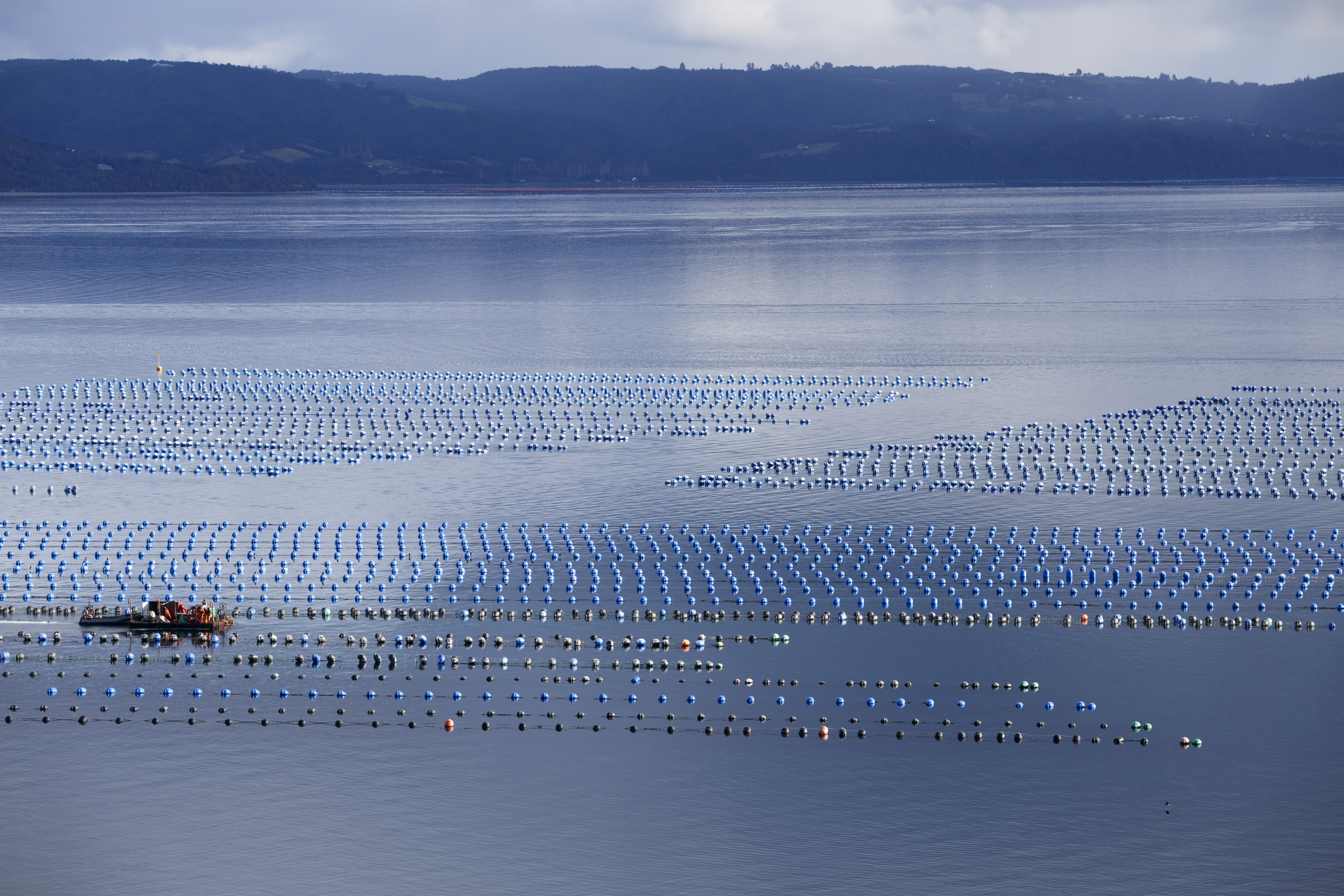 Centro de cultivo de chorito (mejillón chileno) canal Yal, frente a isla Lemuy, archipiélago de Chiloé,Chile.